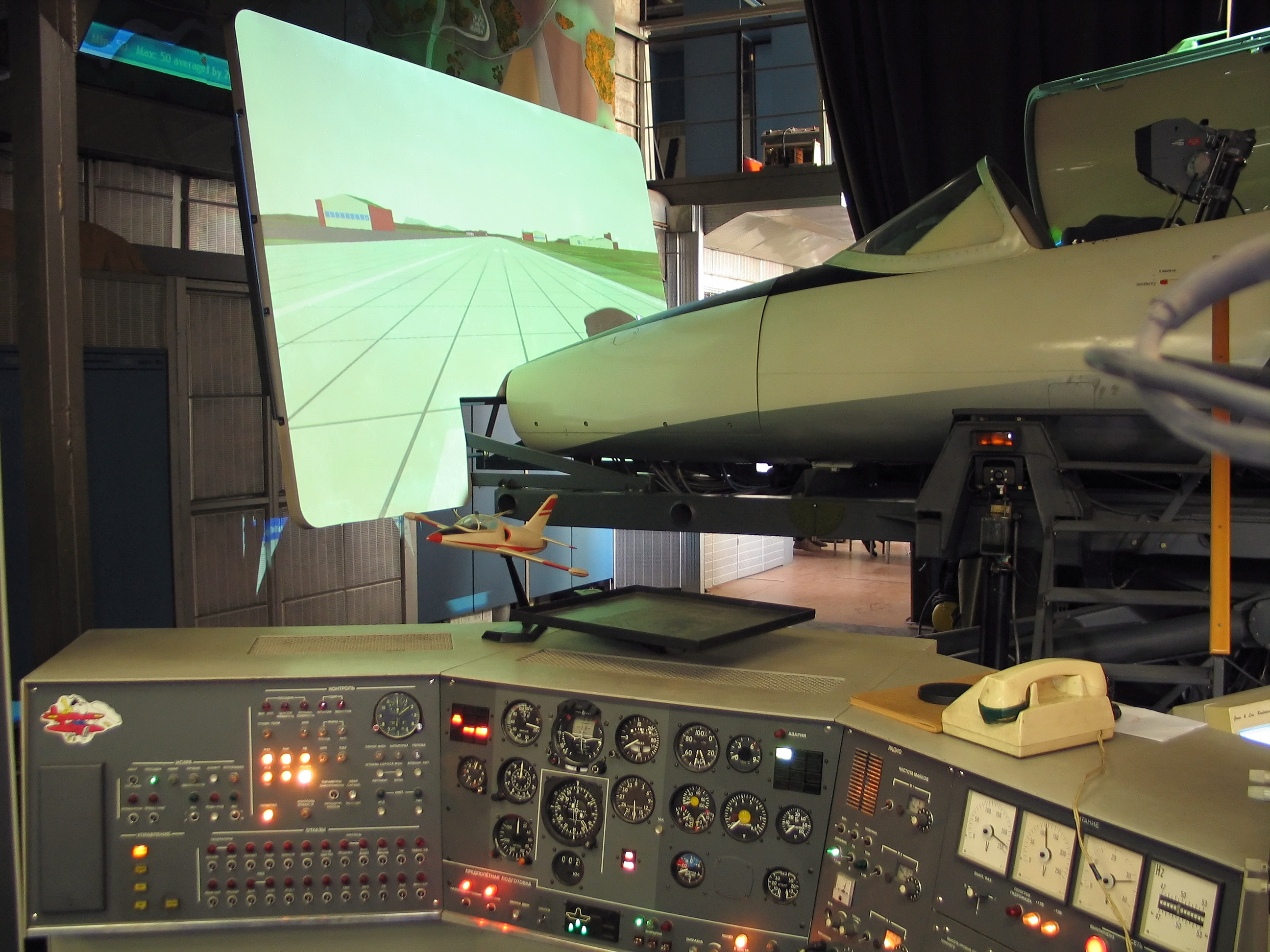 An upgraded version of the Czech-made three degree-of-freedom motion flight simulator TL39, installed at Moscow Aviation Institute. Photo by Sergey Khantsis